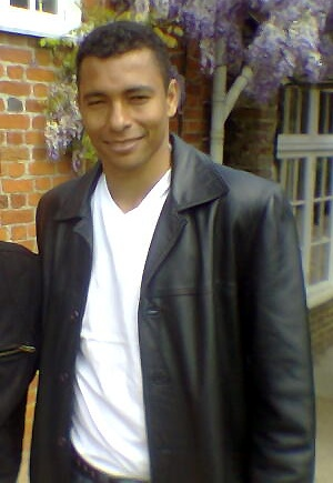 Gilberto Silva in North London